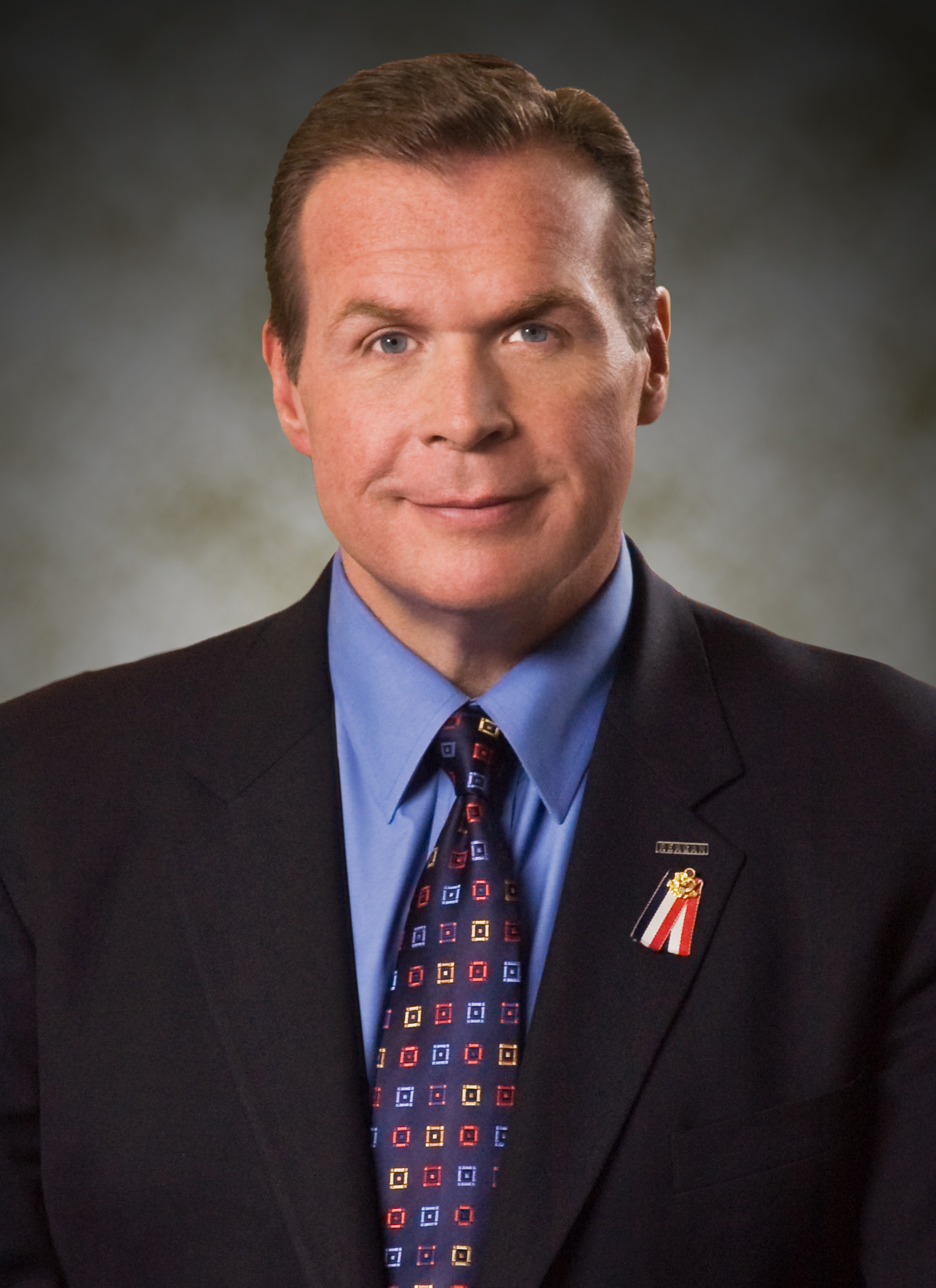 This photo was taken by photographer Susan Anderson on 2/26/10.